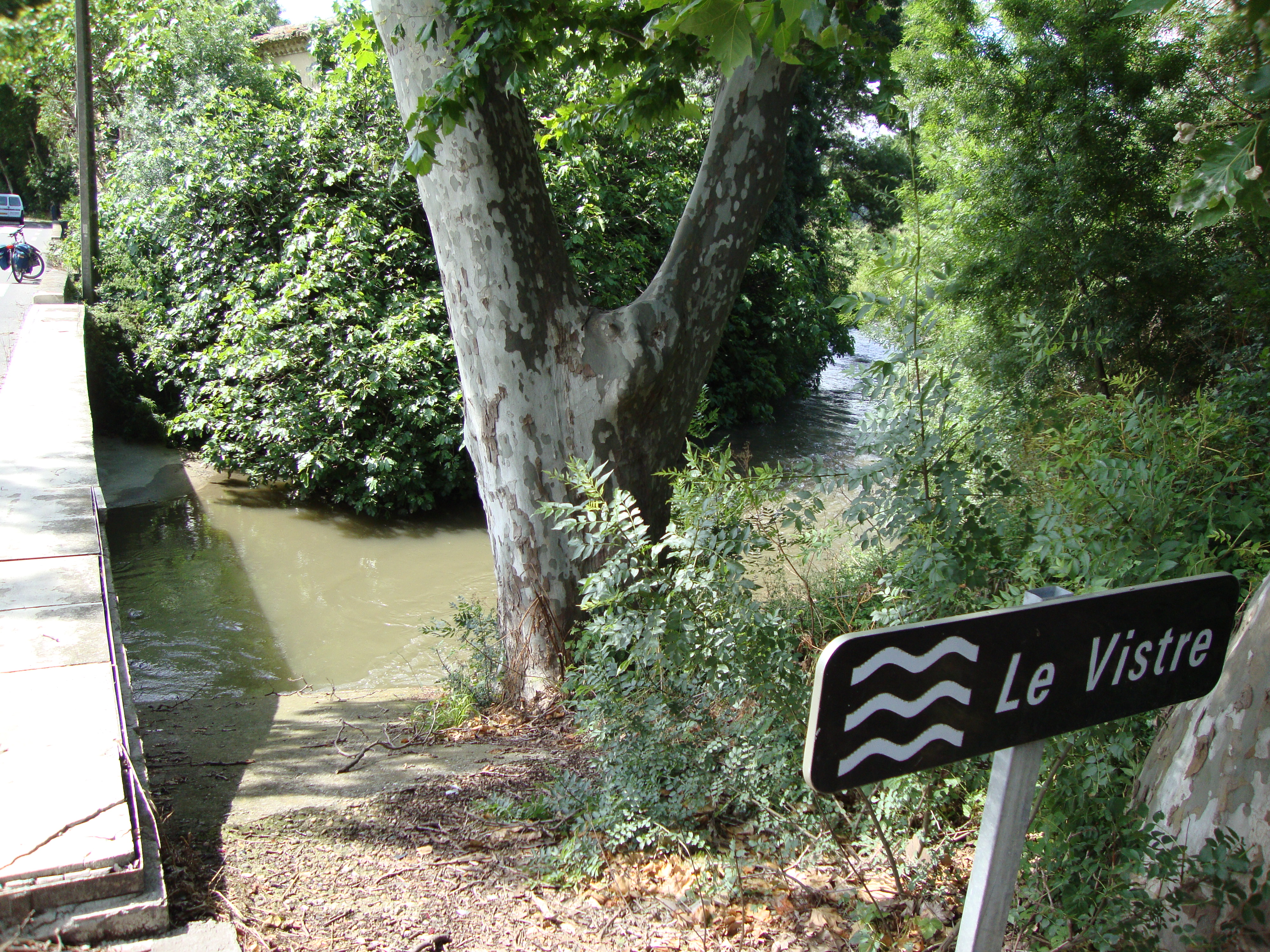 Vauvert (Gard, Fr) Vistre (river)